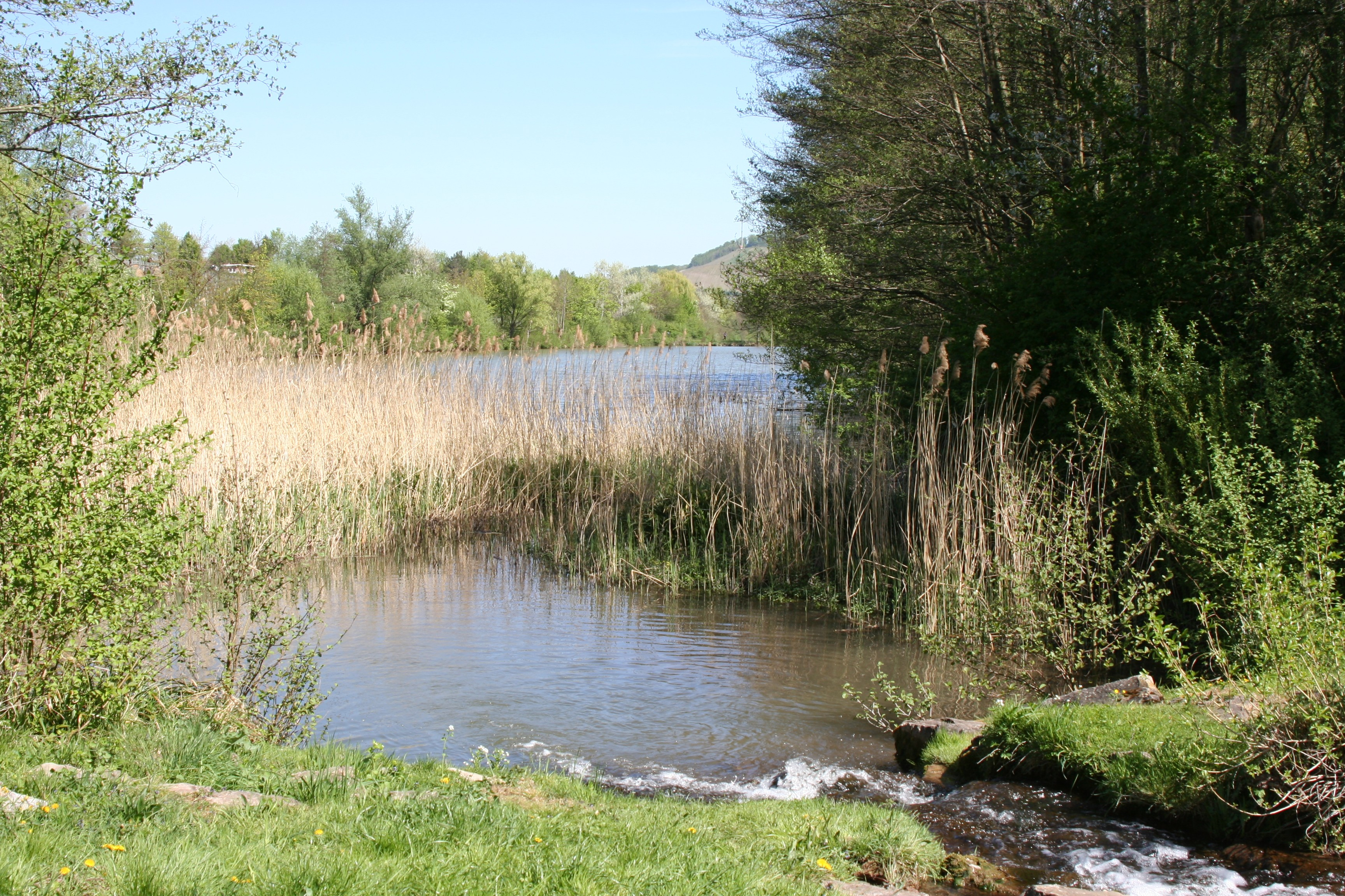 Sulm river in Löwenstein flowing into the Lake Breitenauer See.